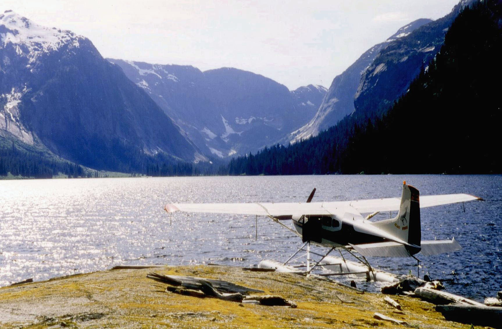 View from small island in Misty Fiords National Monument, Alaska, U.S., that was reached by float plane. Image scanned in from paper print made from 35mm negative.